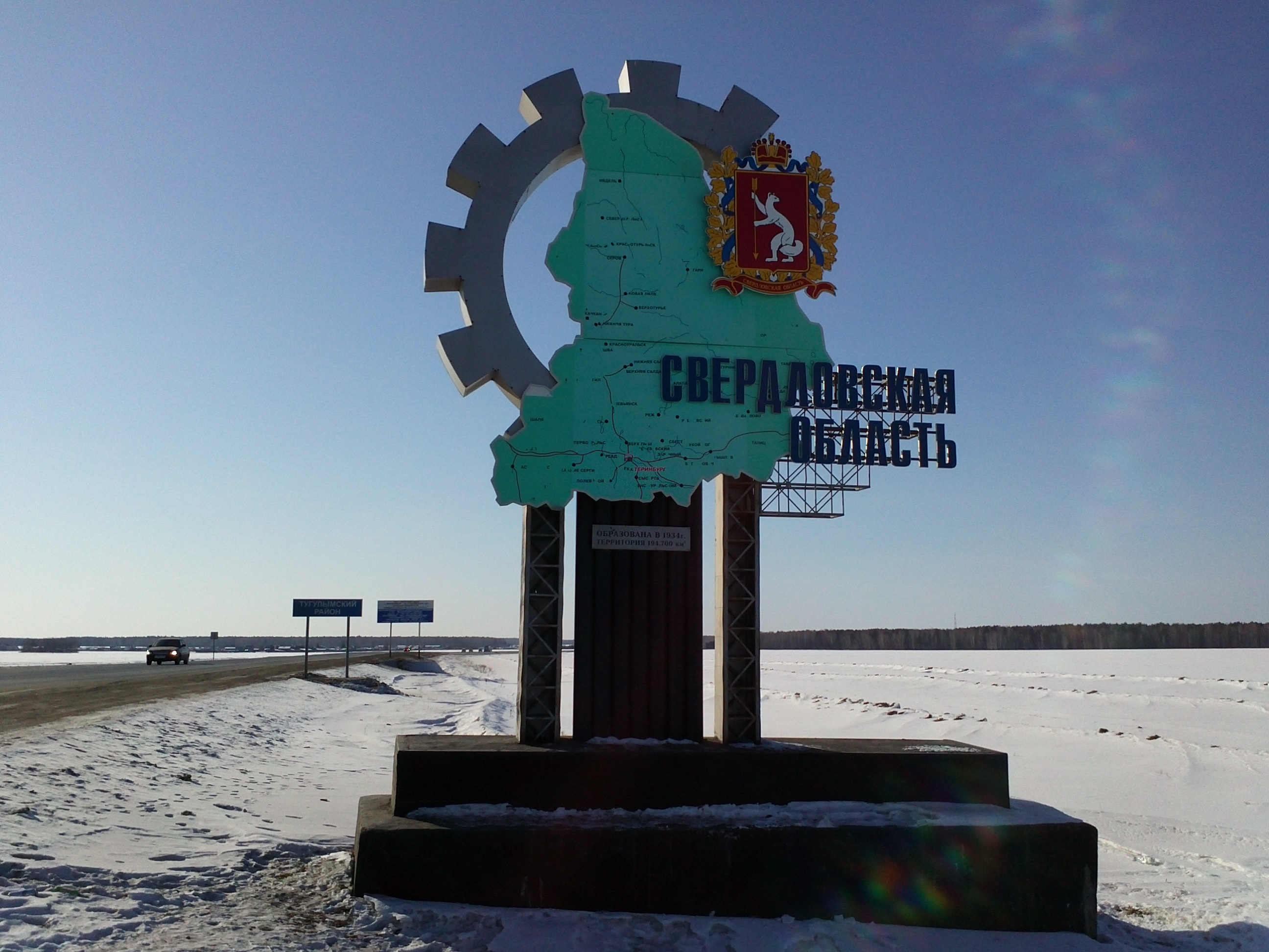 R351 road in Russia: border between Sverdlovsk and Tyumen oblasts (Sverdlovsk oblast entry)